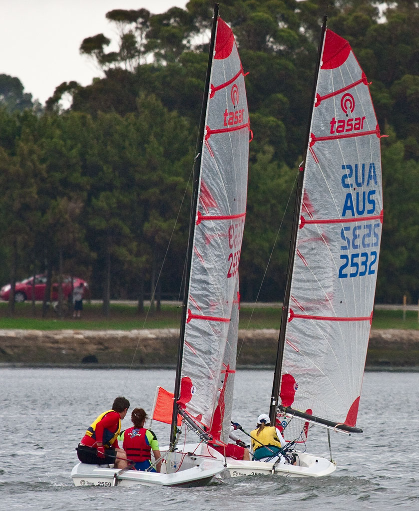 2 Tasar dinghies approaching the bottom mark at Dobroyd Aquatic Club, Iron Cove (suburban Sydney), Australia